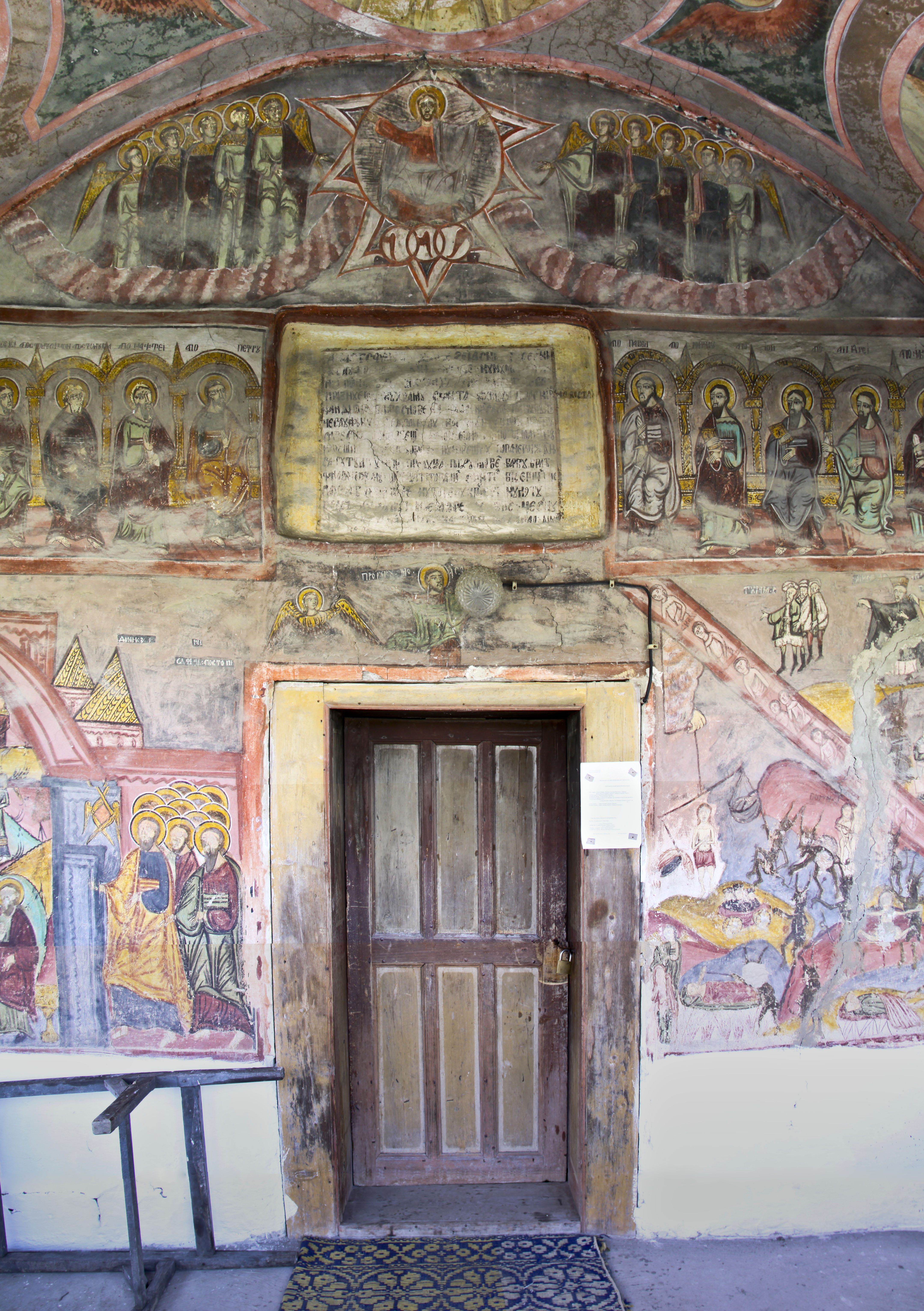 Dămţeni, Vâlcea county, Romania: the wooden church, entry.